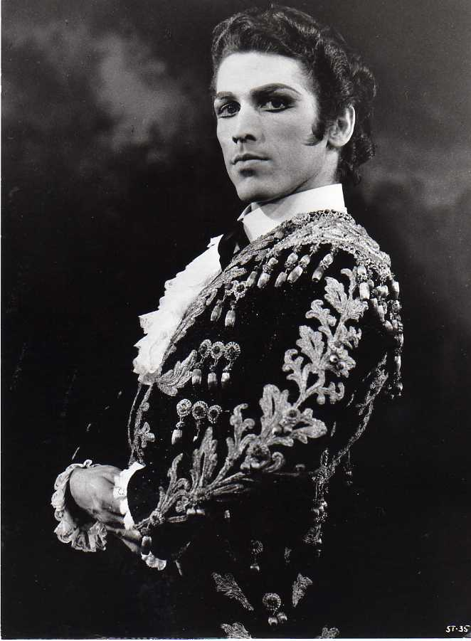 press photo of Richard Cragun